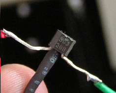 Hall sensor